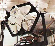 Two RTGs are mounted at the end of each of two extended booms to reduce nuclear radiation effects on the sensitive scientific instruments.